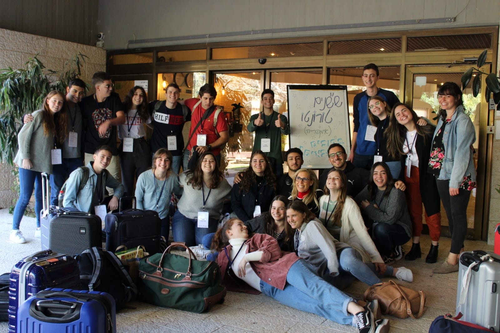 The group of chosen Shinshinim to the gap year in Toronto 2019-2020